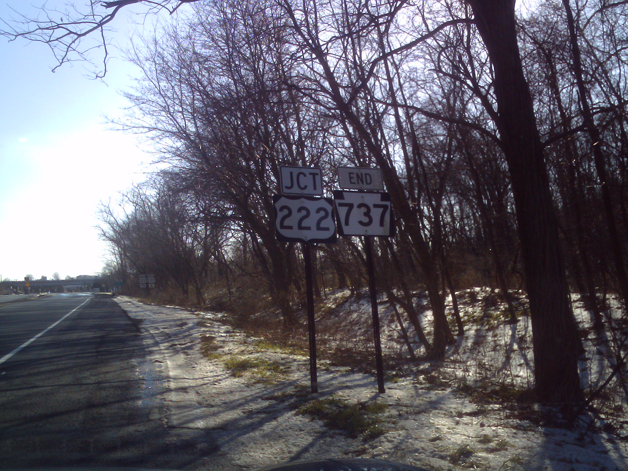 Pennsylvania Route 737 approaching its southern terminus at an interchange with U.S. Route 222 (the Kutztown Bypass).